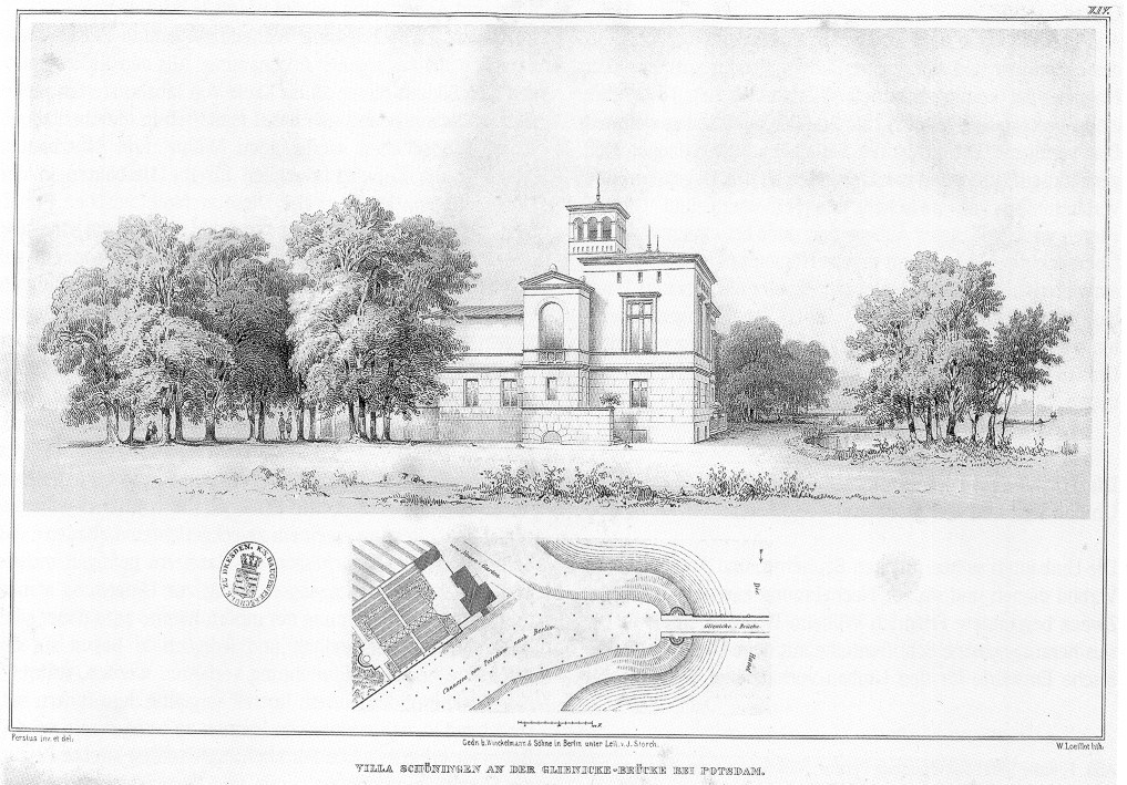 Front (south side) and survey map, Villa Schöningen, Potsdam, Germany